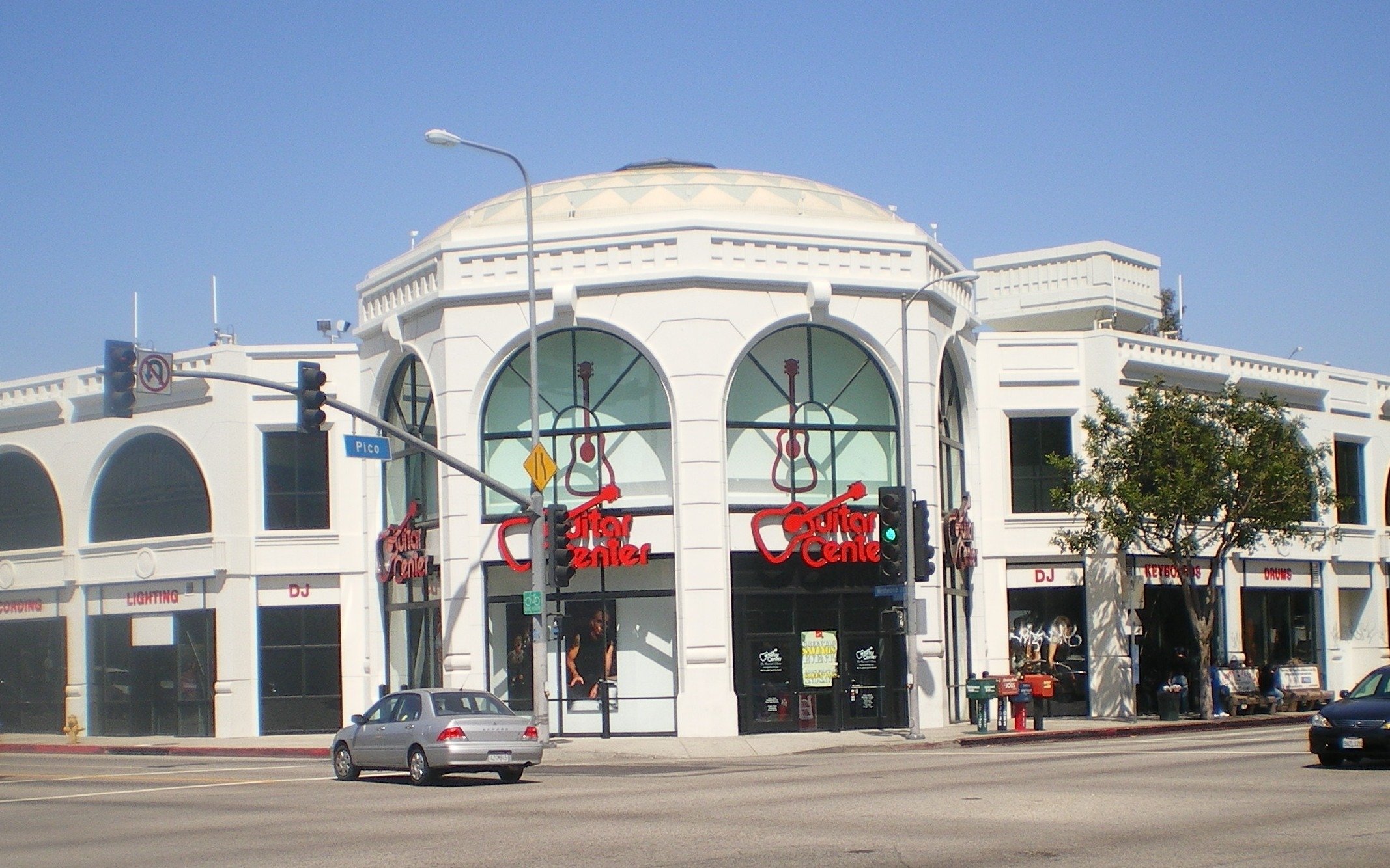 Guitar Center, Pico Blvd. and Westwood Blvd., Los Angeles, CA Guitar Center, Pico Blvd. and Westwood Blvd., Los Angeles, CA